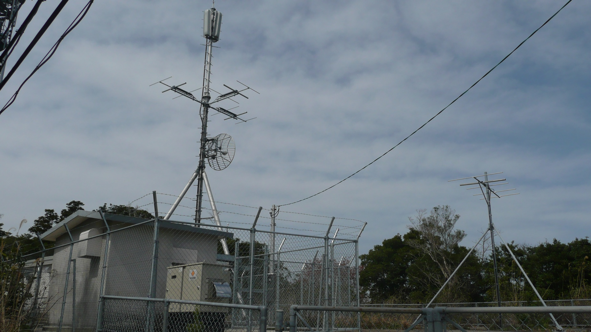 Kushima Repeater (UMK , JOY FM - Kushima City, Miyazaki, Japan)